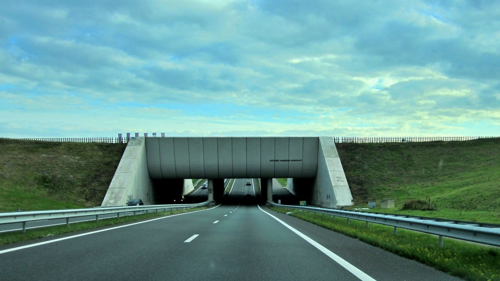 The Richard Hageman Aqueduct, near Leeuwarden/Ljouwert, Friesland, the Netherlands.